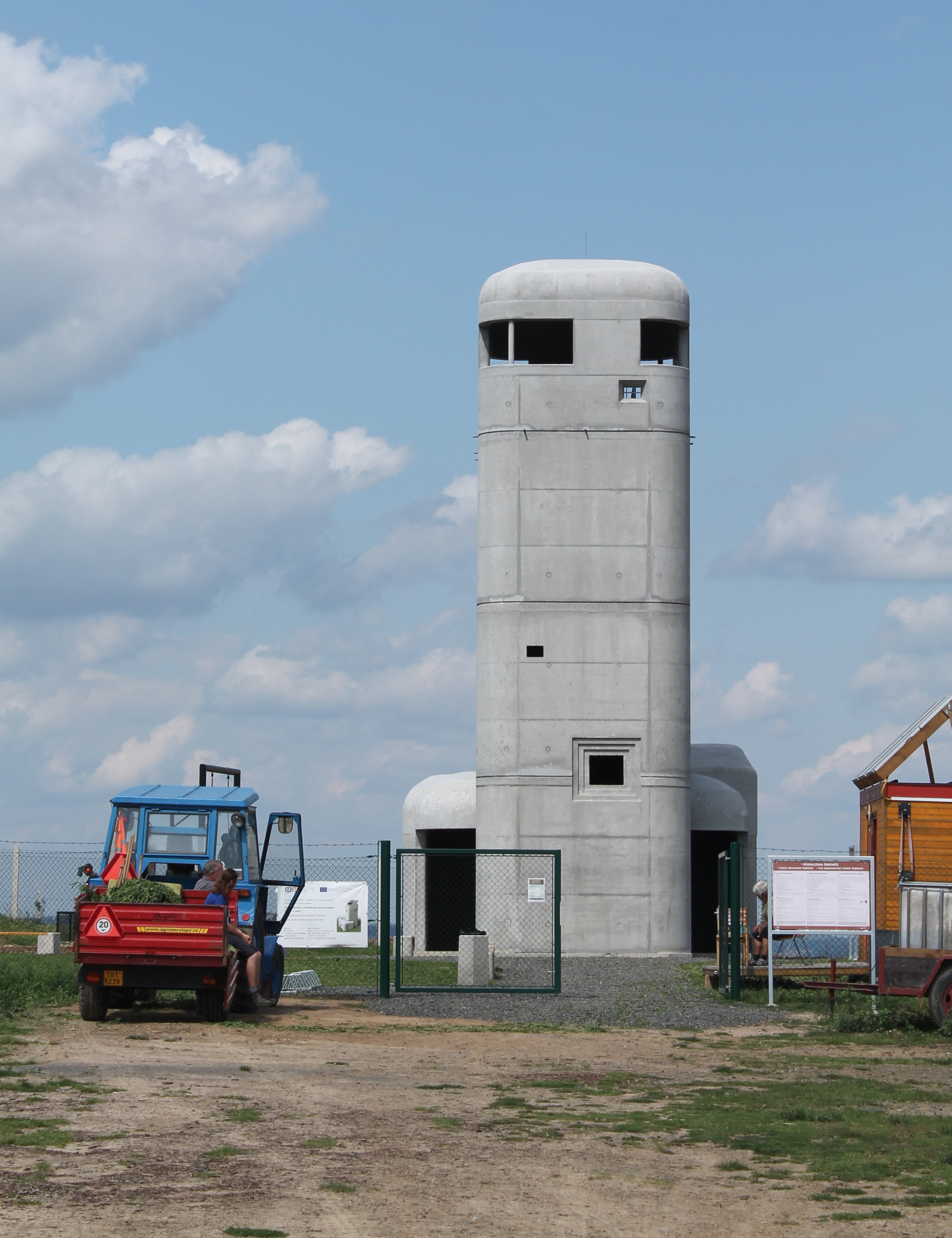 Šibenice observation tower, Jamnice, Stěbořice, Opava District, Czech Republic